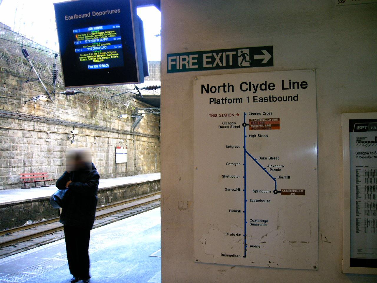 As the filename suggests. Feb 2006. Face blurred out of passer-by to protect privacy. Nach0king 12:15, 6 March 2006 (UTC)